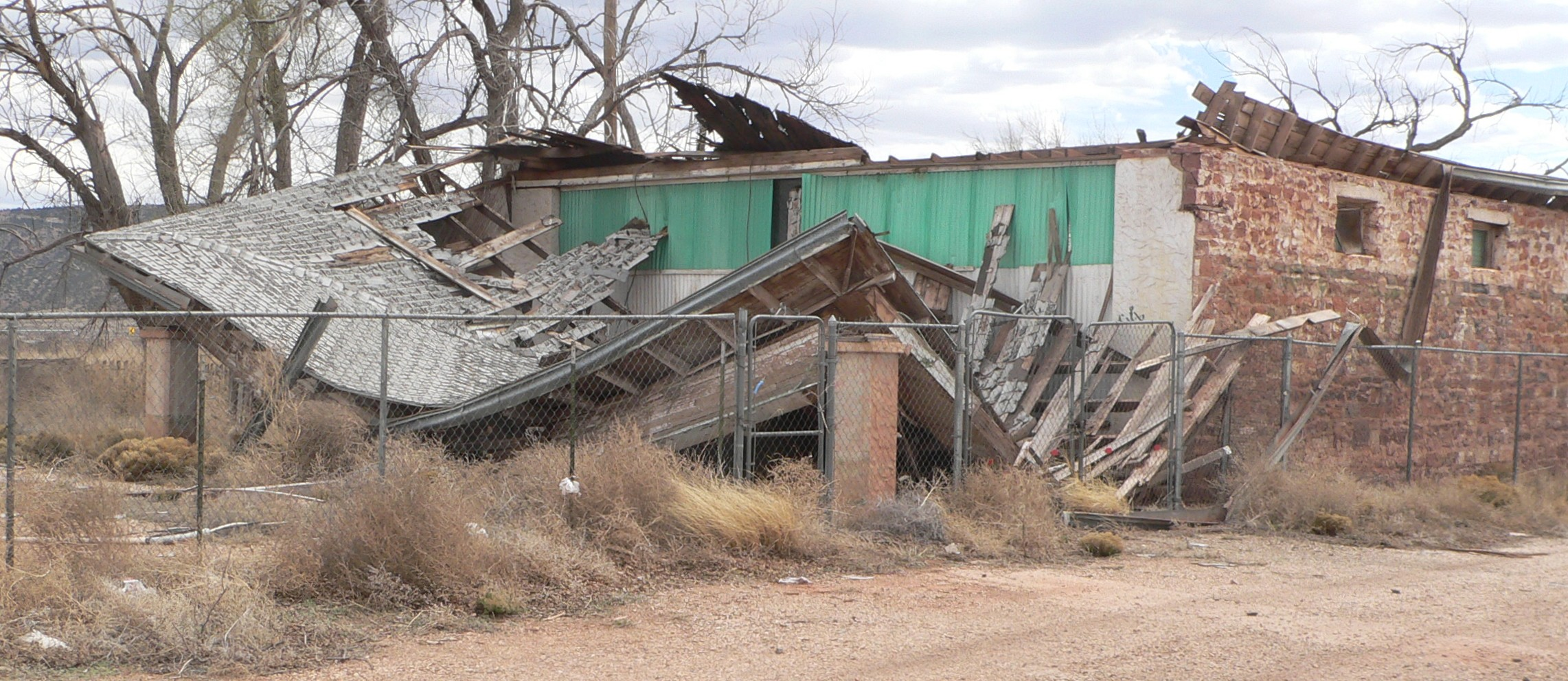 Richardson store, located on south side of Interstate 40 frontage road east of freeway exit in Montoya, New Mexico. Collapsed portico at north end of building.